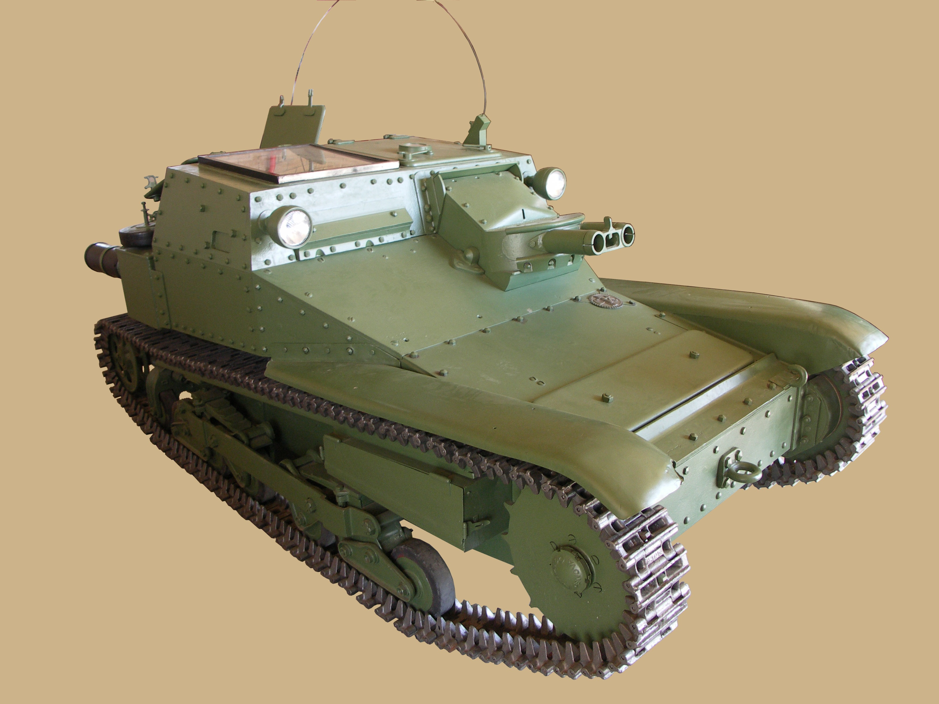 Italian light tank L 3/35r at the South African National Museum of Military History